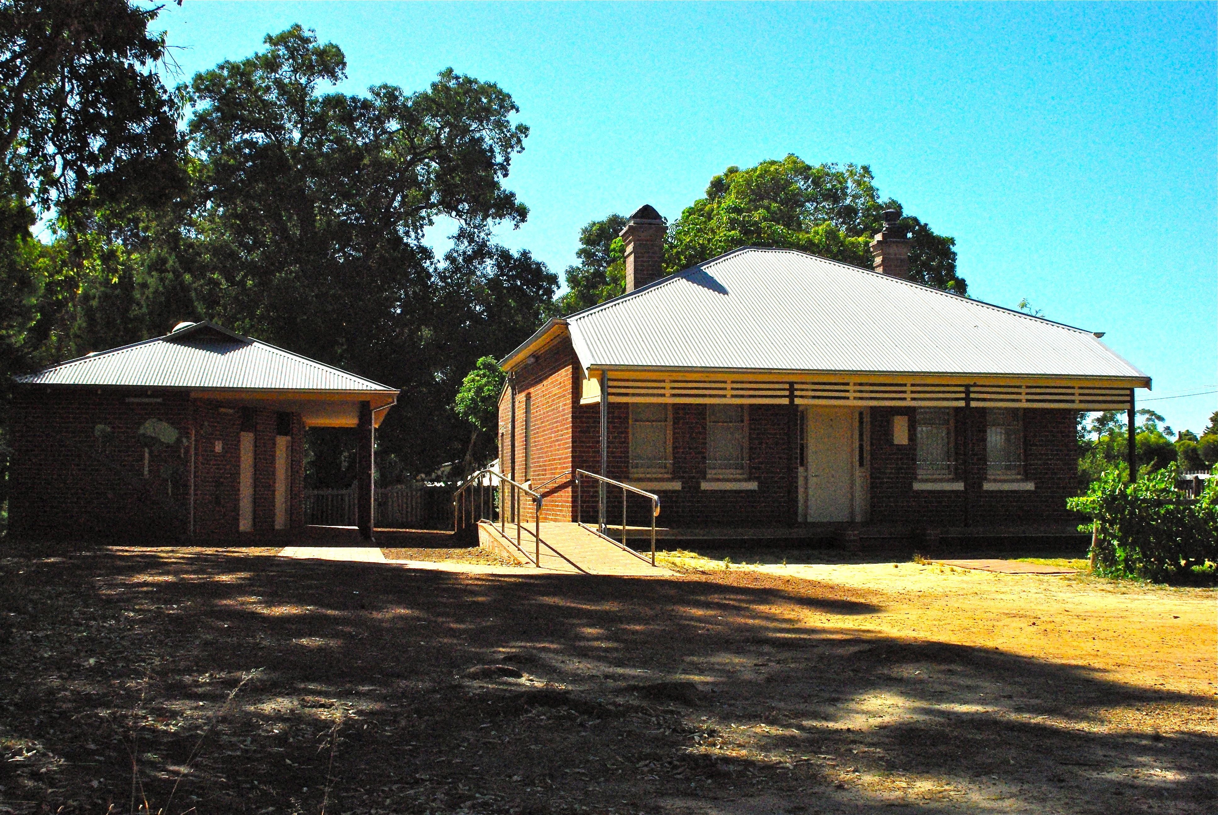 Former Railway Station Masters House, Mundaring Western Australia, now the location of the Mundaring and Hills Historical Society